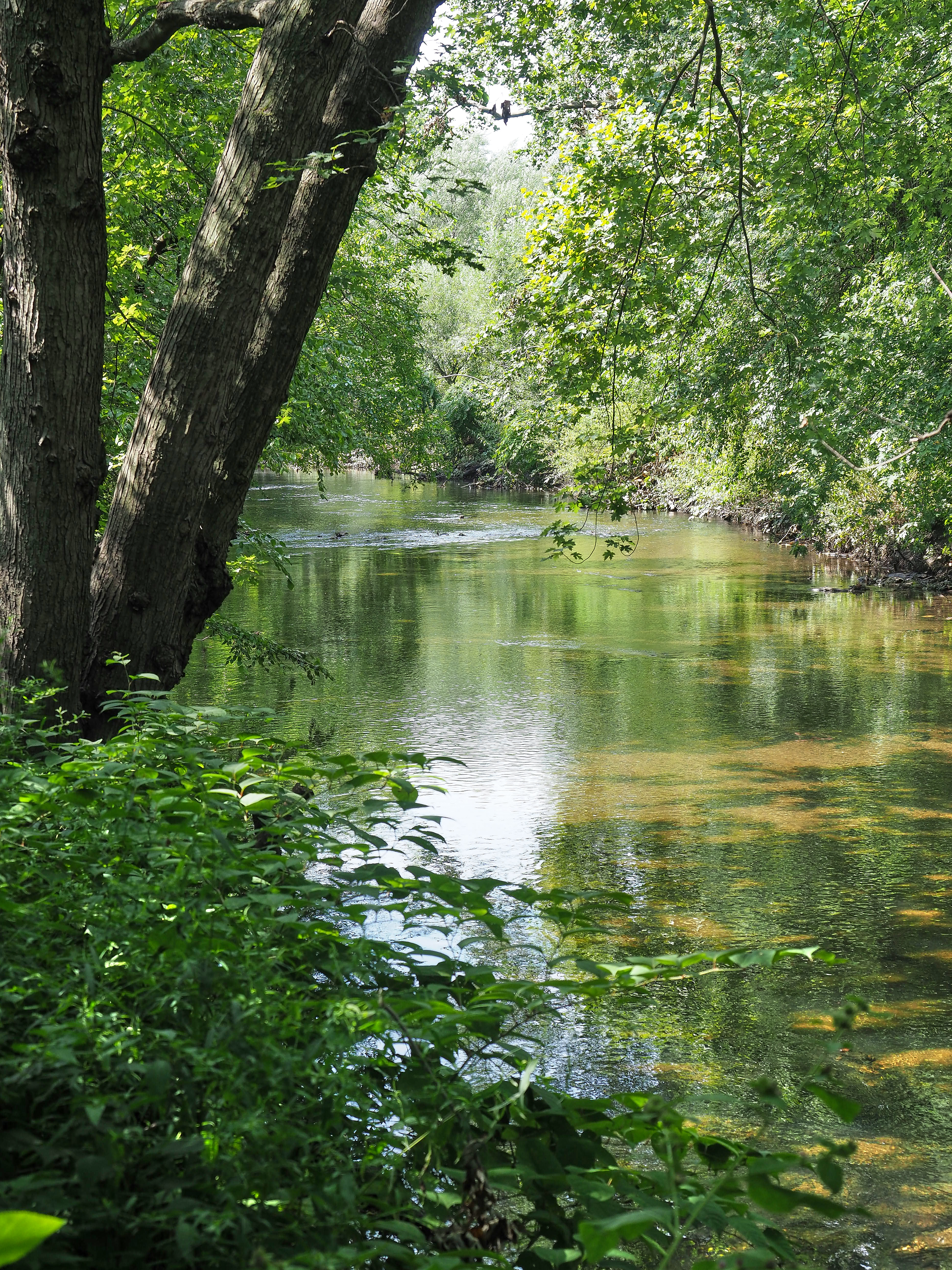 Bronx River, inside Shoelace Park, Bronx, NY. Looking south from the East shore of the river, approximately opposite 225th Street.